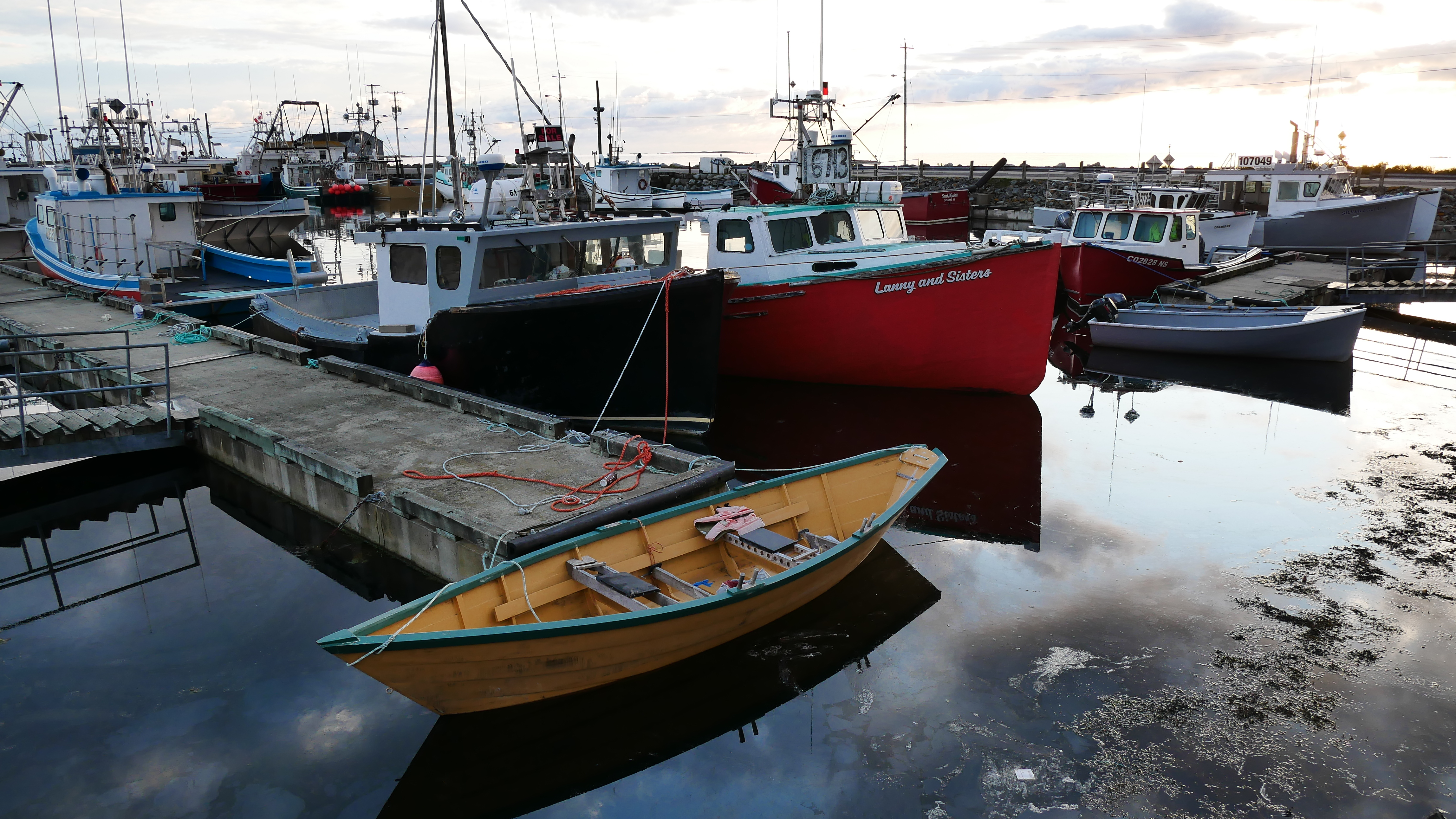 Cape Islanders and a traditional dory at the public wharf in Clark's Harbour